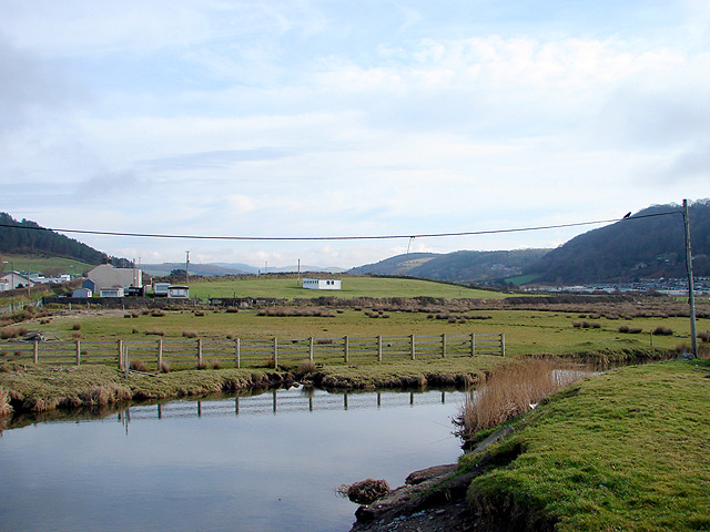 Afon Clarach, looking inland from Clarach Bay Just a few miles in length, Afon Clarach is the result of the confluence of several streams that flow from lead and silver mining areas, including Cwmsymlog and Cwmerfyn, so when the mines were fully active the river would have been heavily polluted, and no doubt still carries some heavy metal seepage from the now defunct mines.